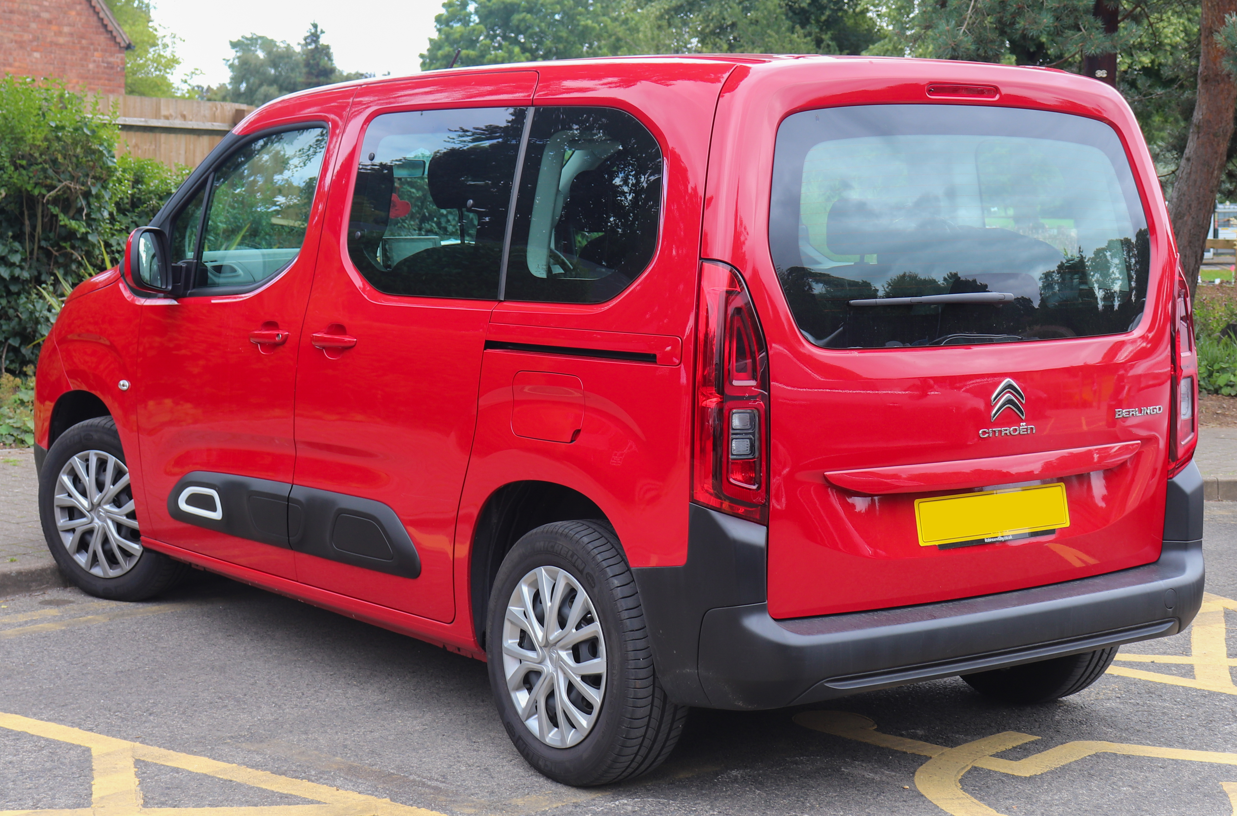 2019 Citroen Berlingo Feel Puretech 1.2 Rear Taken in Warwick